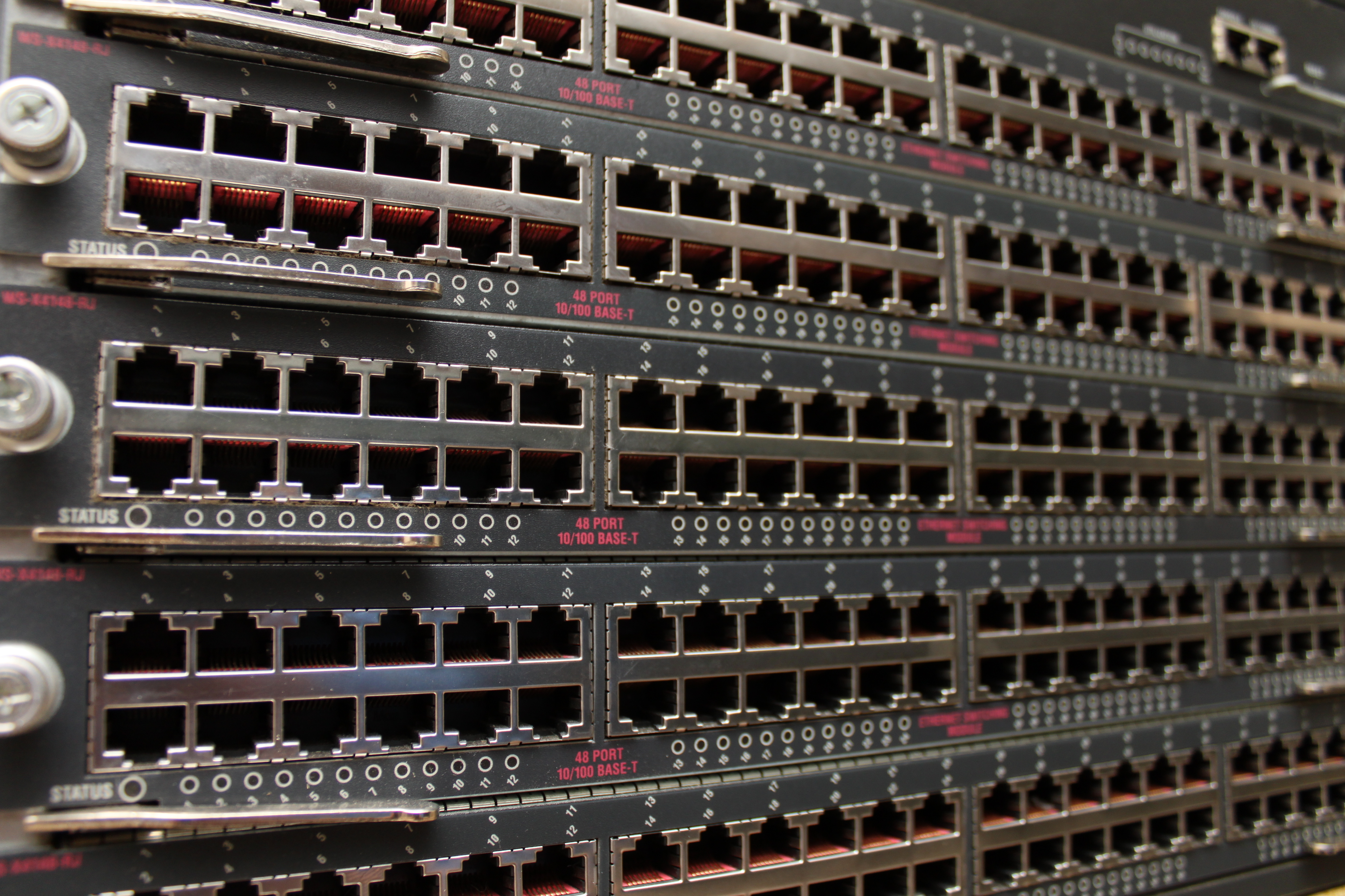 RJ-45 Ethernet Ports on a Cisco Catalyst 4006 switch.